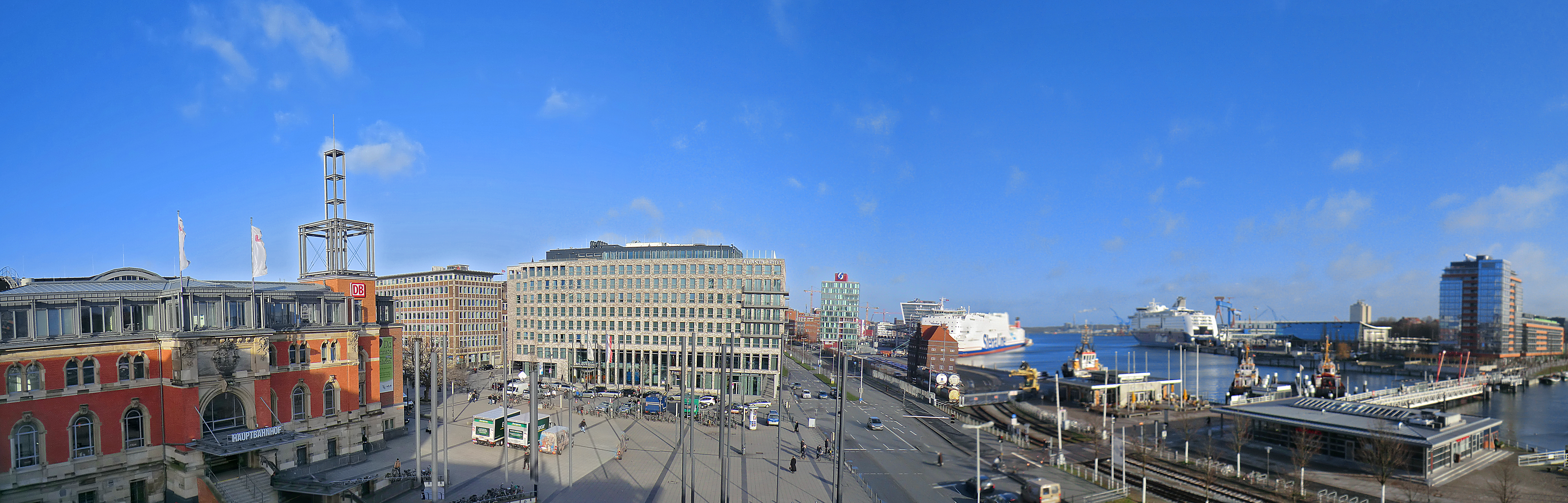 Kiel port: „Hörn“ is called the southern end of Kiel Inner Fjord; left hand side: Kiel Railway Station (central station) with its eastern entry. „Hörn-Bridge“ is a connection from the western shore to the eastern shore, for pedestrians only. This panorama also shows two recently finished buildings: The Atlantic Hotel (center) and the Stena Line skyscraper at the Schwedenkai (half behind Stena Line vessel).